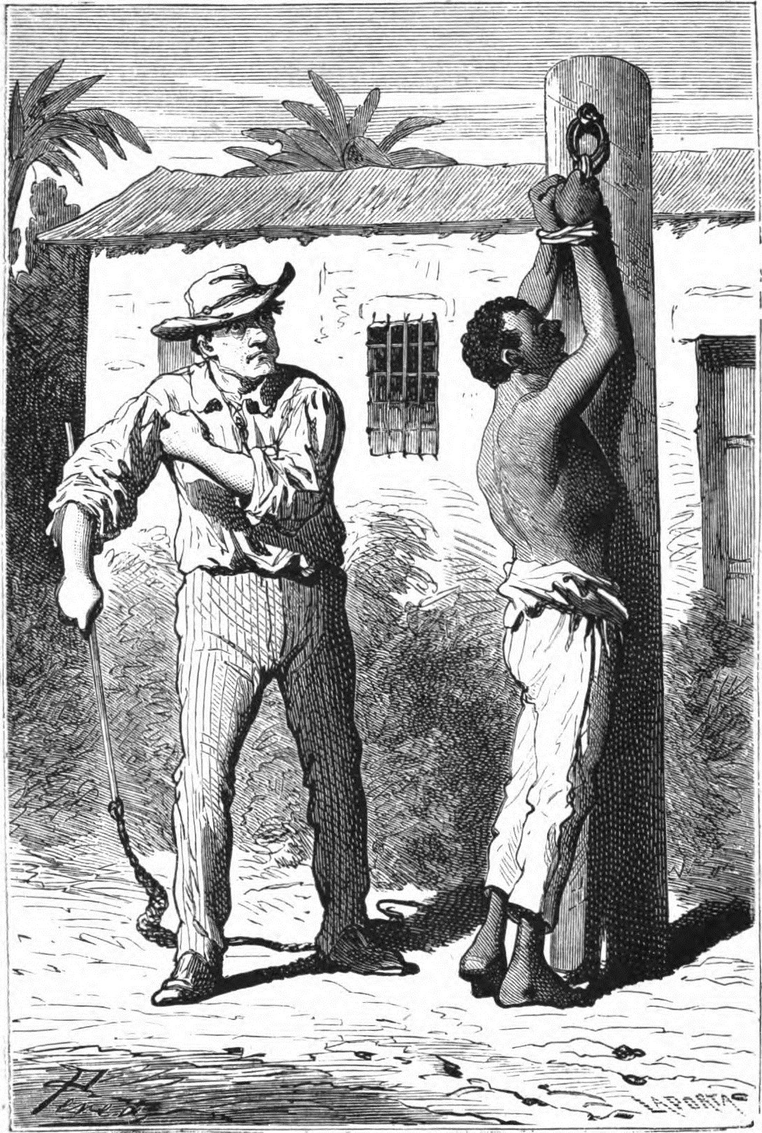 Punishment imposed on a mulatto by the president of the Republic